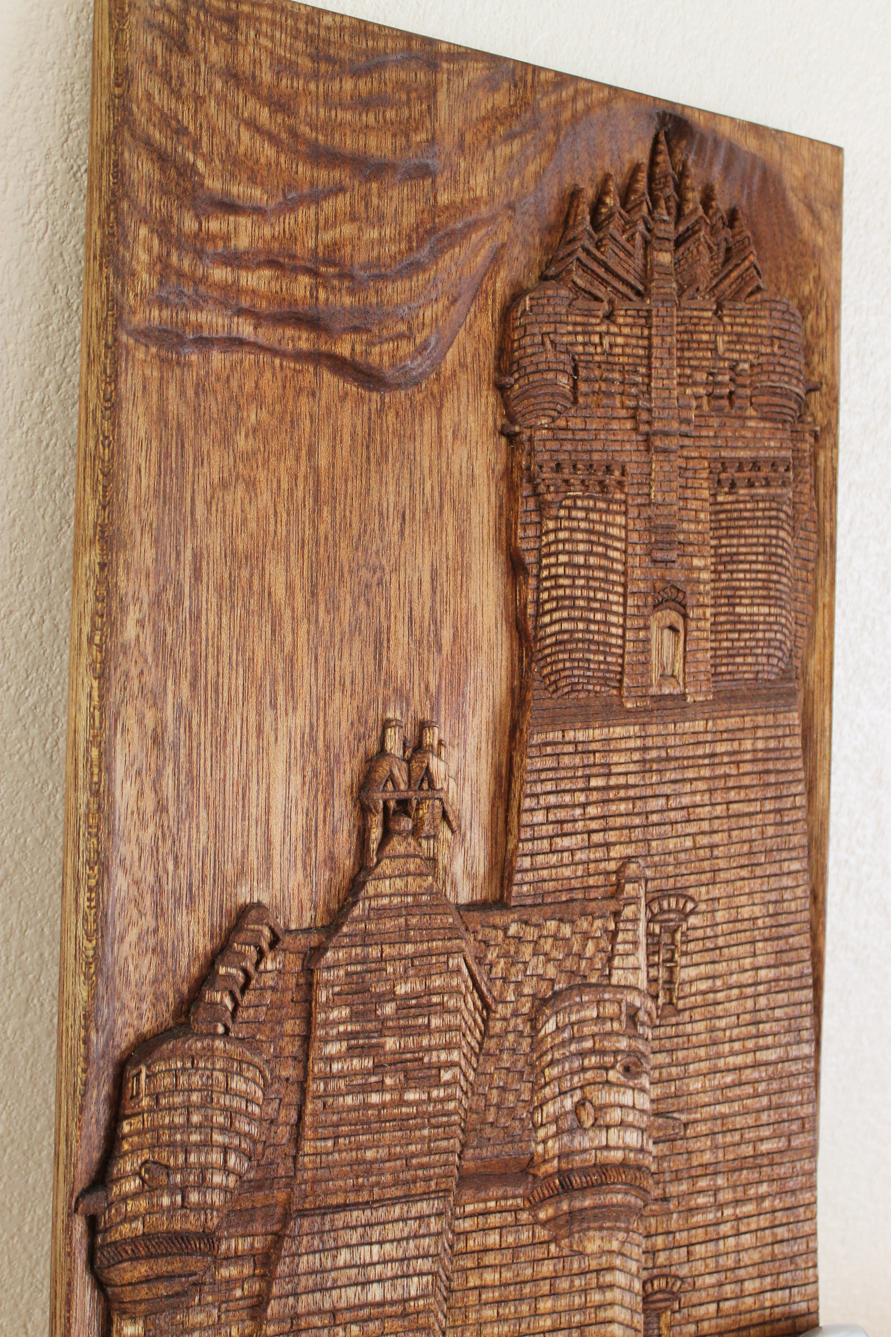 Walace monument art